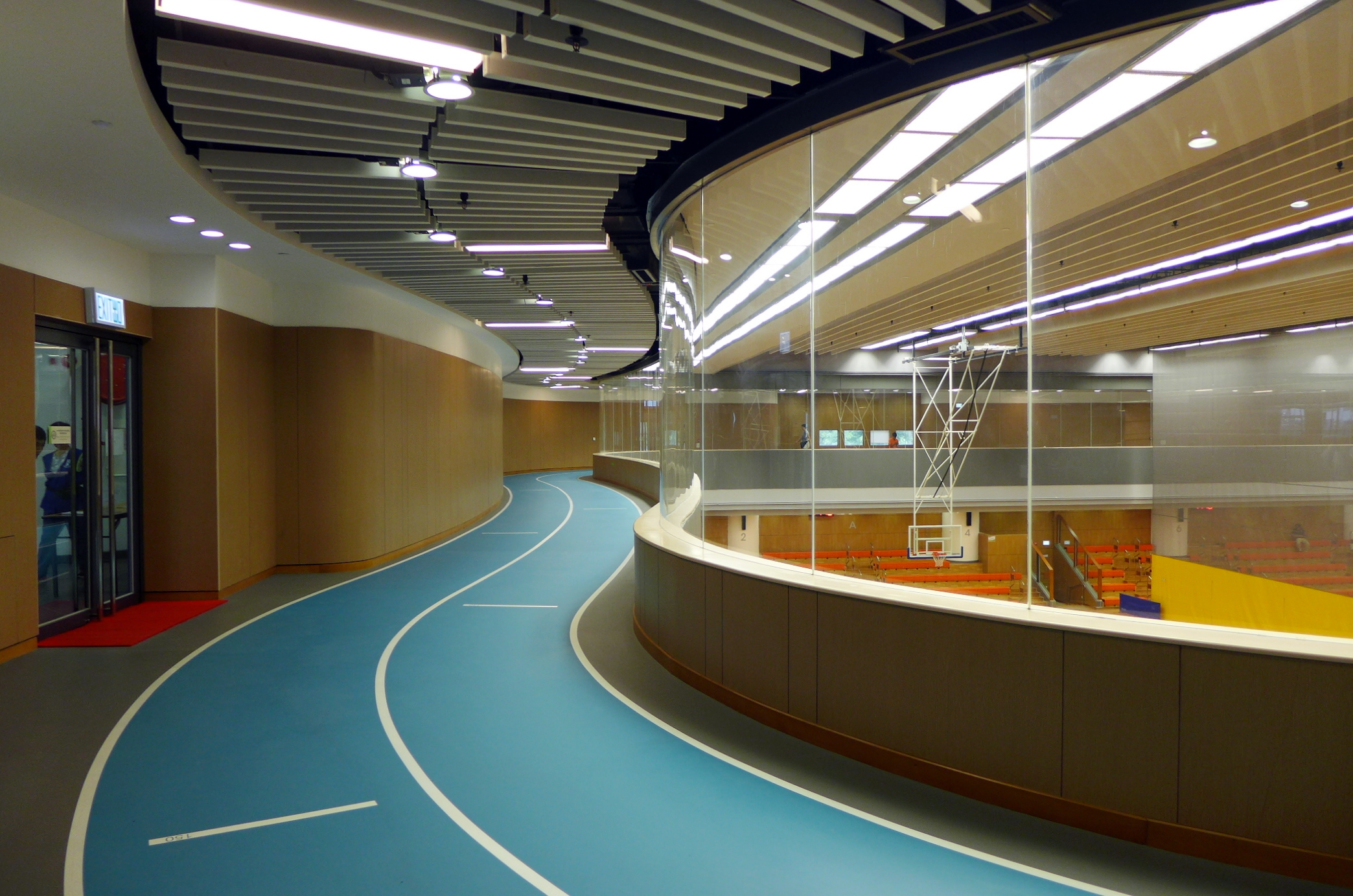 Tiu Keng Leng Sports Centre